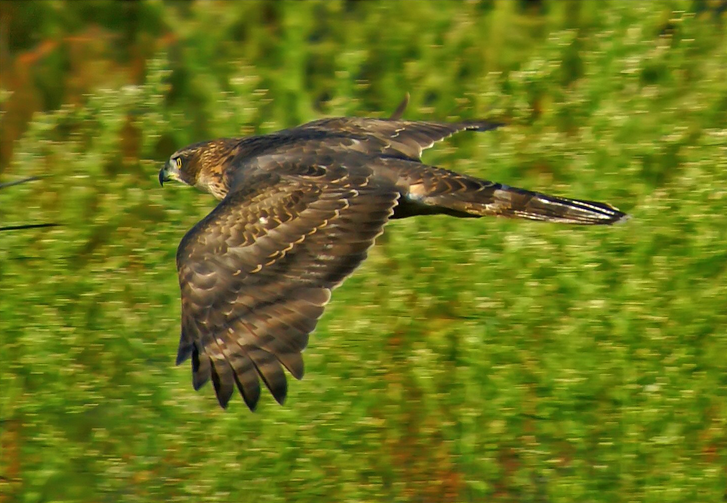 Azor / Northern Goshawk Accipiter gentilis gentilis, juvenile; Viladecans, Catalonia, Spain.